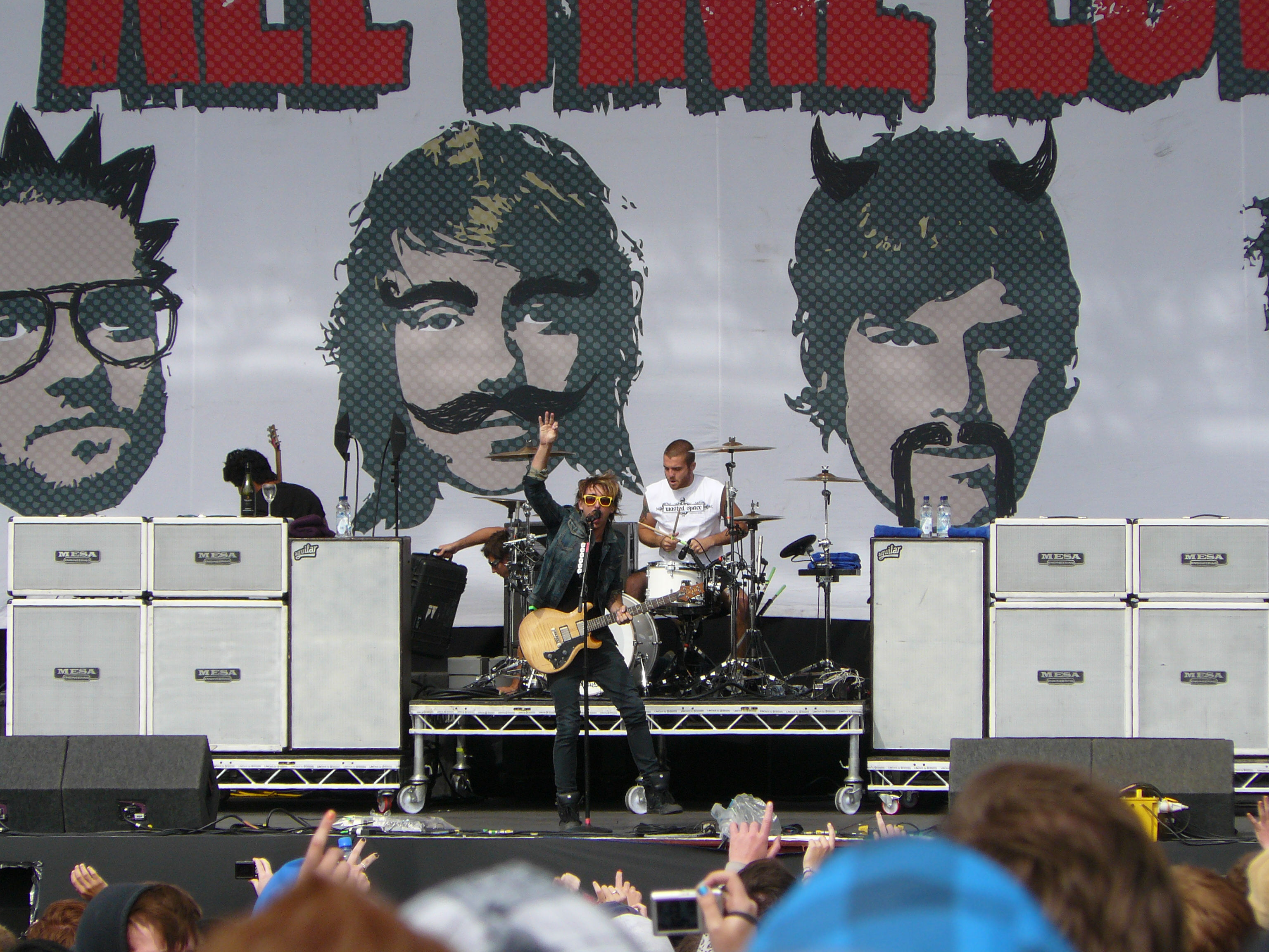 All Time Low performing at Leeds Festival 2010.